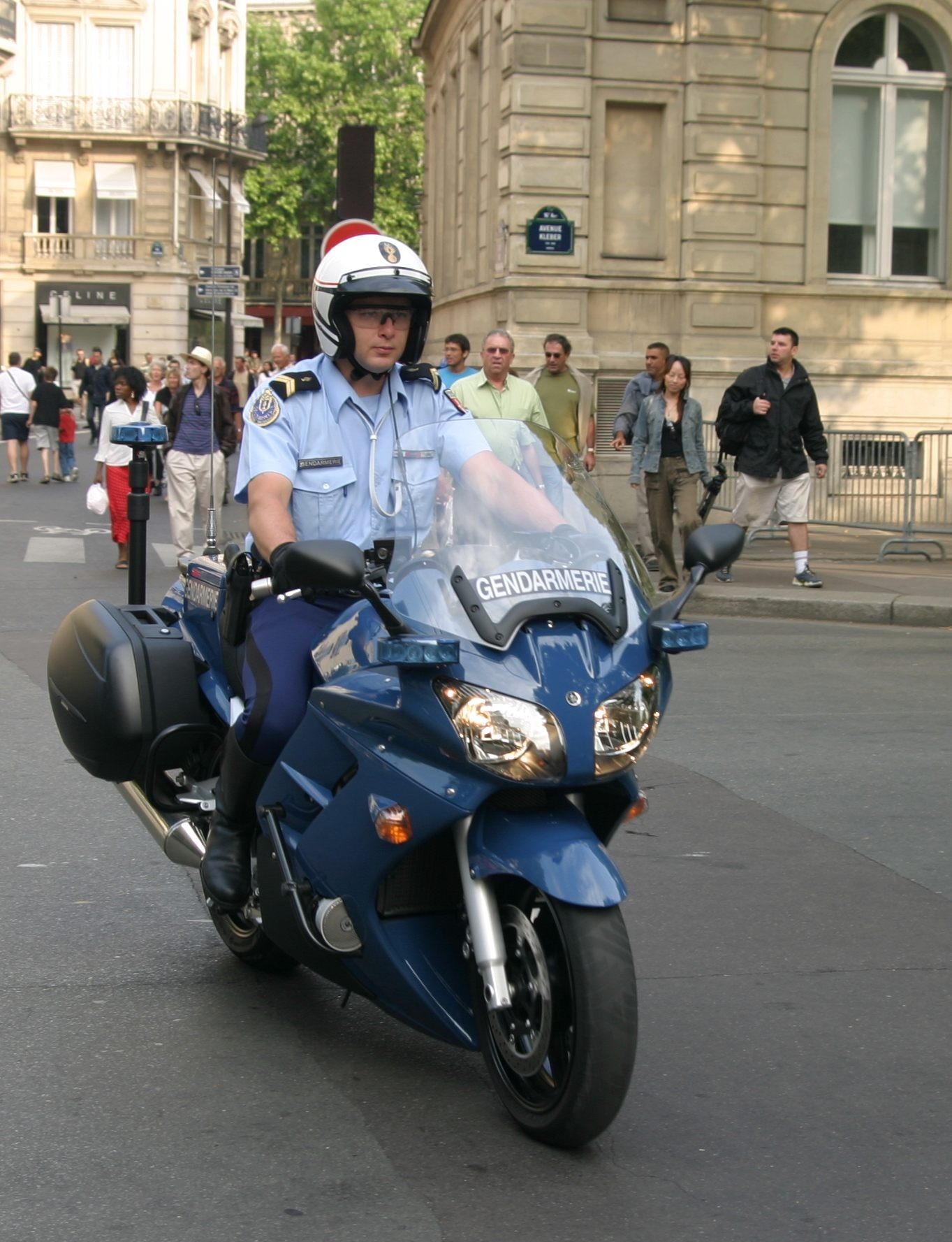 Yamaha FJR 1300 of the French Gendarmerie